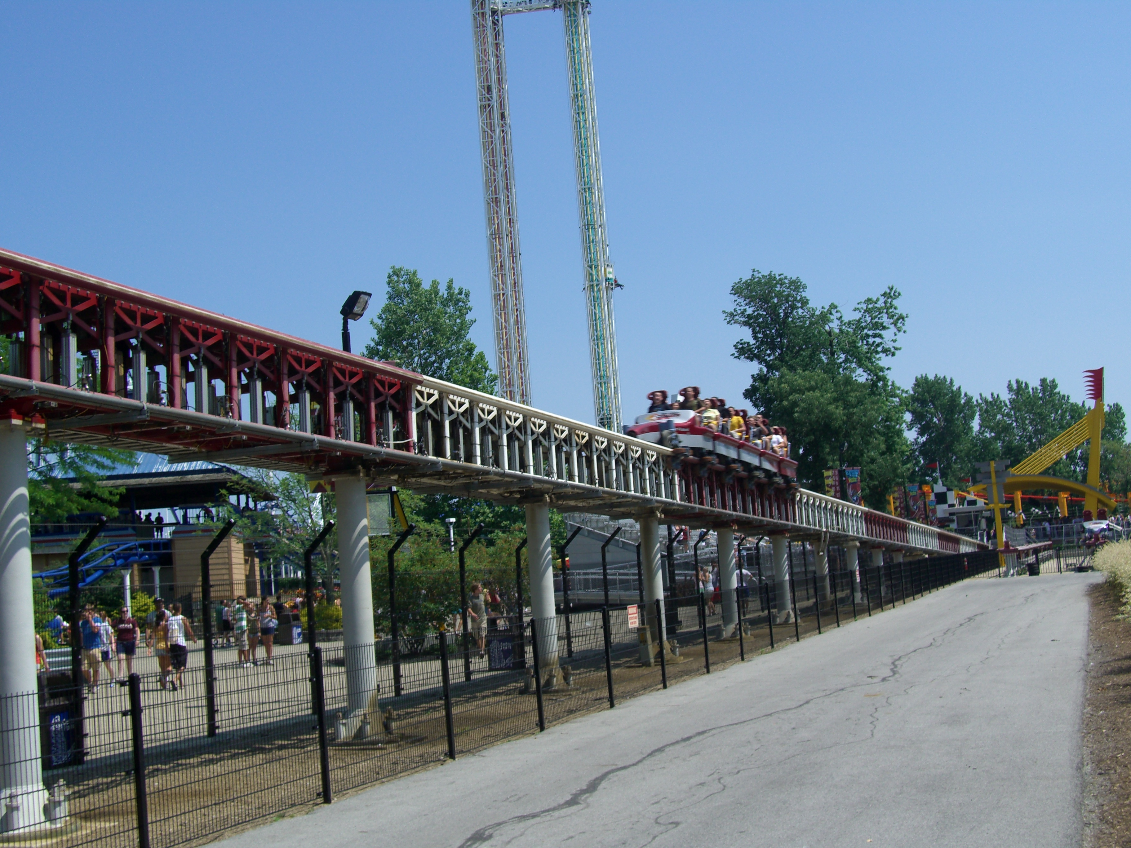 Top Thrill Dragster, a hydraulically launched roller coaster, launching a train to its maximum speed of 120 mph.